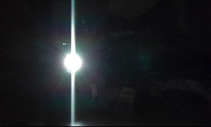 Vertical smear common in most consumer oriented CCD's. More advanced CCD's (as found in professional cameras) have specialised circuitry to counteract this problem.